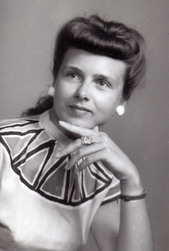 Portrait of the Danish artist Astrid Tjalk from the early 1950s